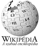 Old logo of the Hungarian Wikipedia. For the current logo, see Wikipedia-logo-v2-hu.png.